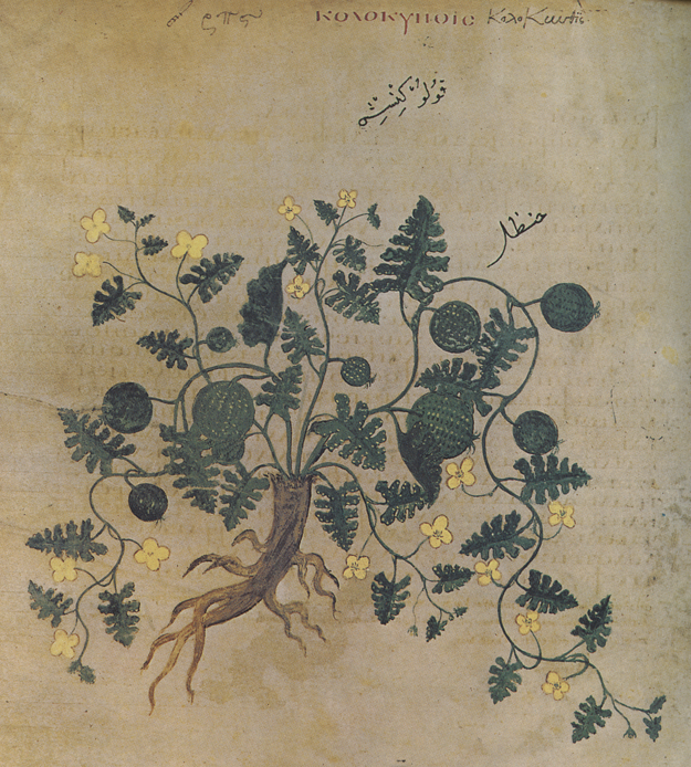 kolokunthis folio 190v